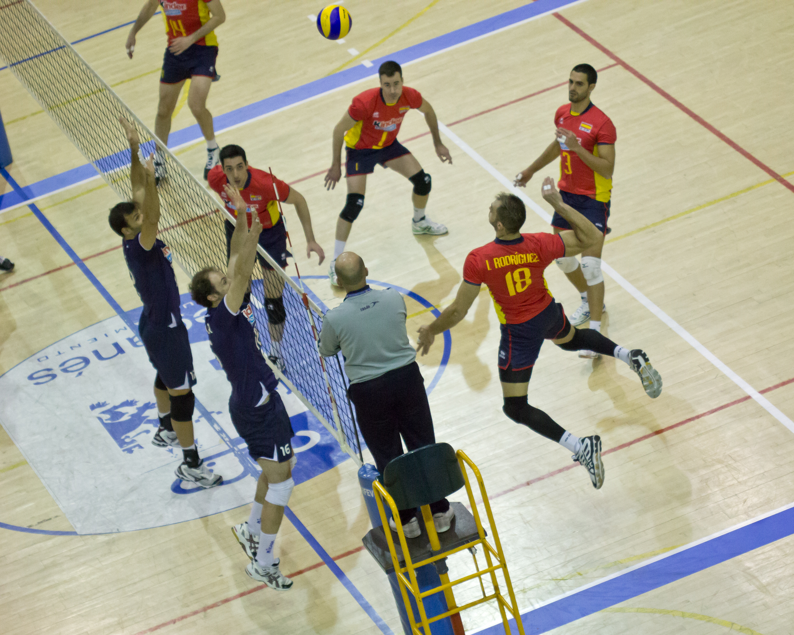 Israel Rodríguez spiking against Portugal's block during the volleyball game between Spain and Portugal at Europa Arena in Leganés, Spain.